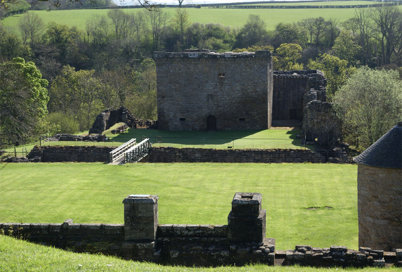 Craignethan Castle, Scotland